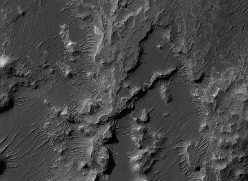 Layers in Uzboi Vallis, as seen by HiRISE. The location is 27.4 degrees south latitude and 35.3 degrees west longitude. Picture was taken with the Mars Reconnaissance Orbiter's HiRISE. Picture credit is NASA/JPL/ University of Arizona.